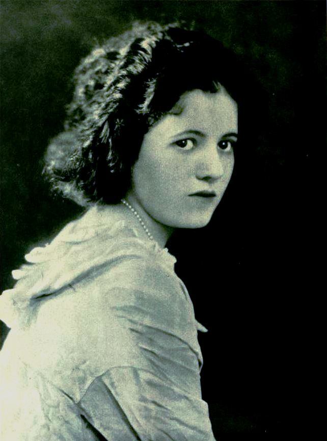 Actress Teddy Sampson, on page 14 of the February 1922 Photoplay.